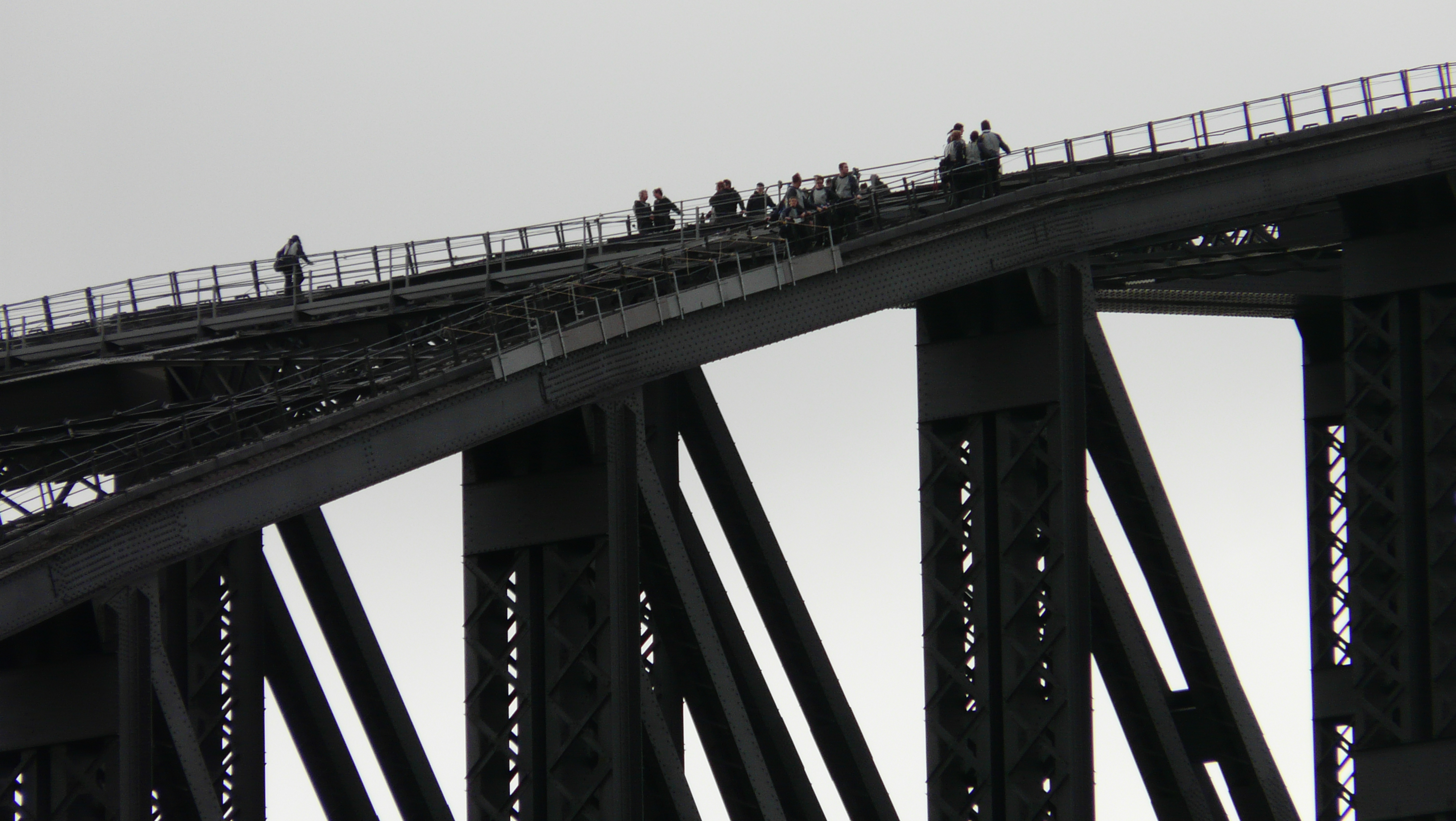 sydney harbour bridge bridgeclimb